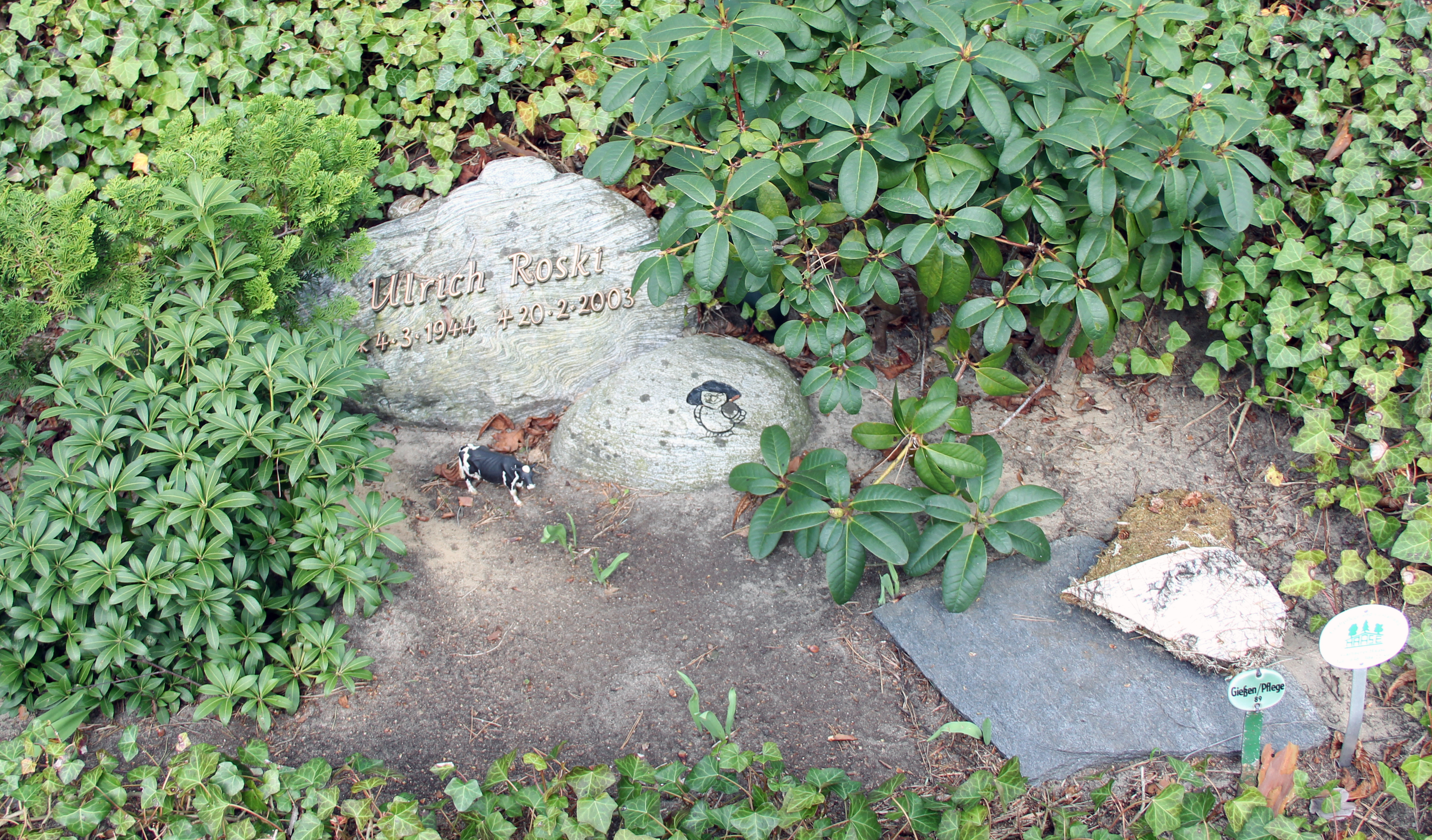 Grave, Ulrich Roski, Trakehner Allee 1, Berlin-Westend, Germany